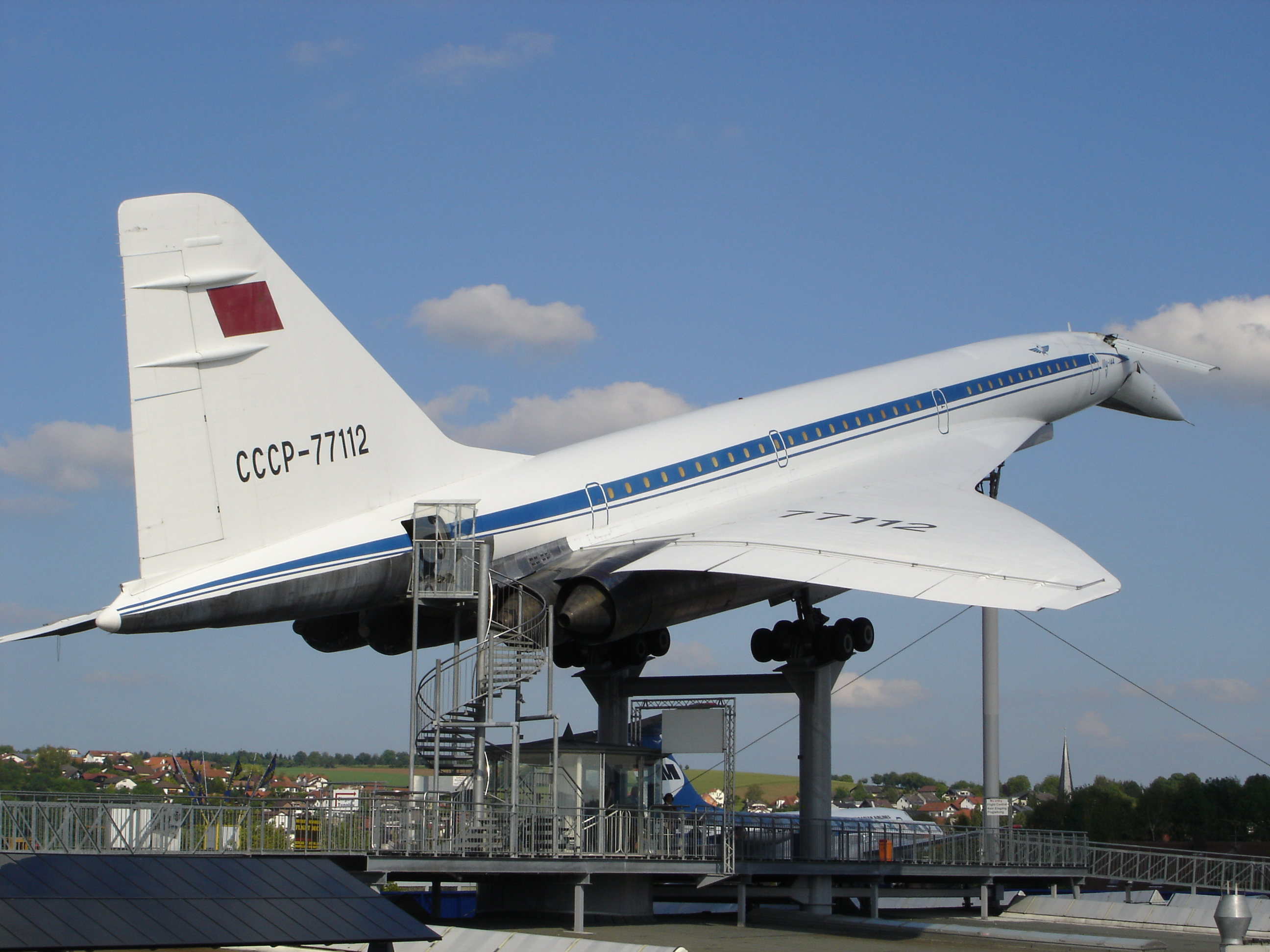 Picture taken on 18 May 2007 at the Auto & Technik Museum in Sinsheim, Germany by Dr. Axel Rohde.